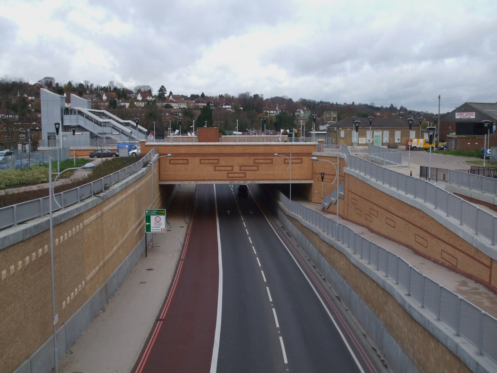 Coulsdon Relief Road looking north from footbridge, towards Smitham railway station (the grey covered footbridge at the top right of the picture